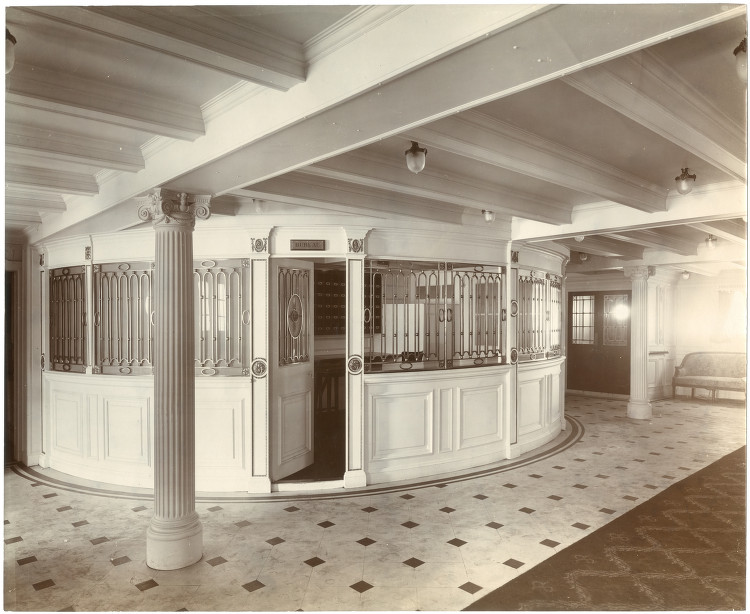 Title: [Purser's Bureau, on the Promenade Deck, Lusitania] Creator: Bedford Lemere & Co. Date: ca. 1905-1907 Part Of: Photographs of Q.S.T.S. "Lusitania" Physical Description: 1 photographic print: gelatin silver; 24 x 30 cm. File: ag1982_0183_001_sm_opt.jpg Rights: Please cite DeGolyer Library, Southern Methodist University when using this file. A high-resolution version of this file may be obtained for a fee. For details see the web page. For other information, . For more information, View the